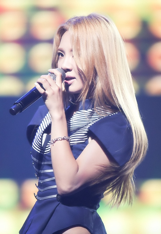 Hyoyeon at Diet Look Concert on September 1, 2012.